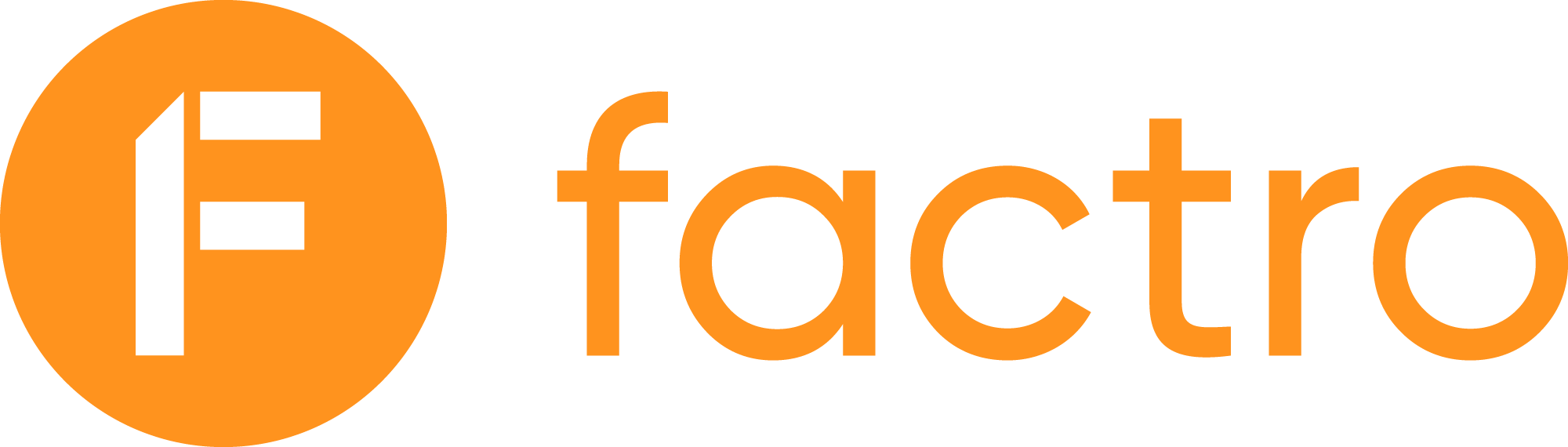 factro was registerd 26.5.2004 as EUTM with No. 003854081 from Schuchert Managementberatung GmbH & Co. KG; by management permission I allow the usage according to CC-BY-SA 4.0., Bochum, 13.03.2020, ppa. Klaus Uhlmann